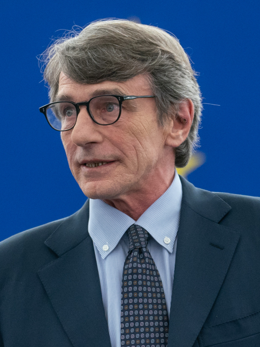 This photo is free to use under Creative Commons license CC-BY-4.0 and must be credited: "CC-BY-4.0: © European Union 2019 – Source: EP". No model release form if applicable. For bigger HR files please contact: webcom-flickr(AT)